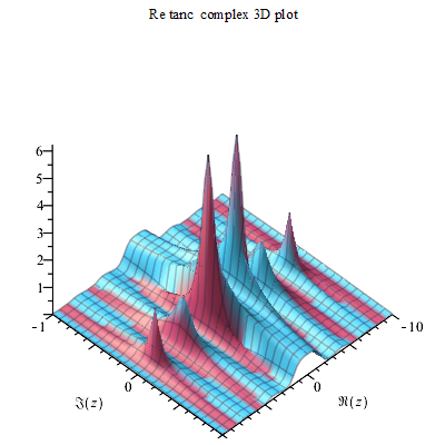 Tanc Re complex 3D plot